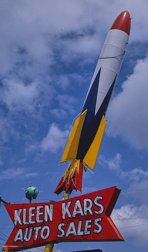 Margolies, John,, photographer. Kleen Kars sign, Salt Lake City, Utah 1981. 1 photograph : color transparency ; 35 mm (slide format). Notes: Title, date and keywords based on information provided by the photographer. Margolies categories: Gas stations, pumps and signs. Please use digital image: original slide is kept in cold storage for preservation. Credit line: John Margolies Roadside America photograph archive (1972-2008), Library of Congress, Prints and Photographs Division. Purchase; John Margolies 2015 (DLC/PP-2015:142). Forms part of: John Margolies Roadside America photograph archive (1972-2008). Subjects: Automobile service stations--1980-1990. Signs (Notices)--1980-1990. United States--Utah--Salt Lake City. Format: Slides--1980-1990.--Color For more information, see "John Margolies Roadside America Photograph Archive - Rights and Restrictions Information" Repository: Library of Congress, Prints and Photographs Division, Washington, D.C. 20540 USA, Part Of: Margolies, John John Margolies Roadside America photograph archive (DLC) 2010650110 General information about the John Margolies Roadside America photograph archive is available at Higher resolution image is available (Persistent URL): Call Number: LC-MA05- 5665